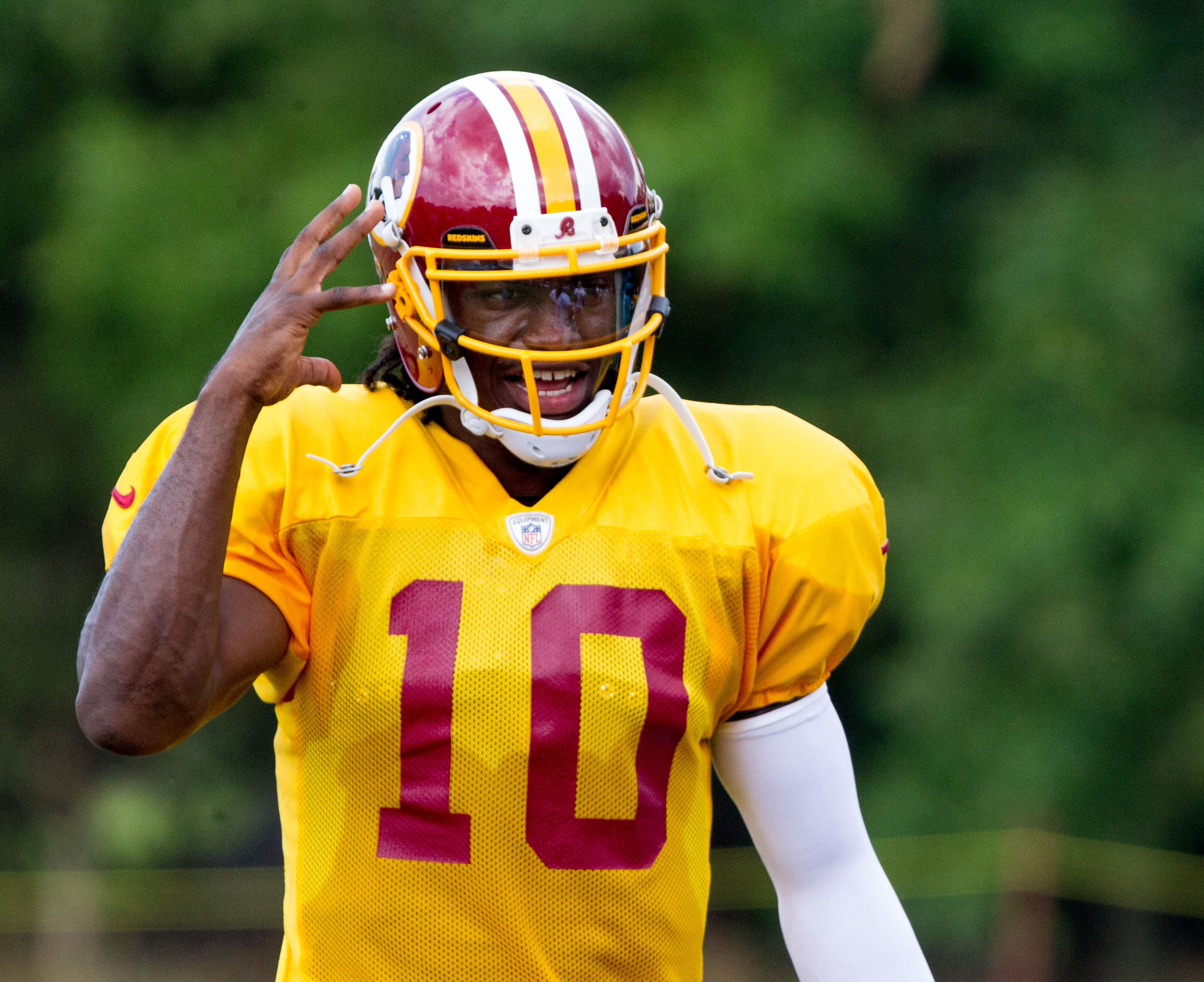 Washington Redskins Training Camp July 31, 2012